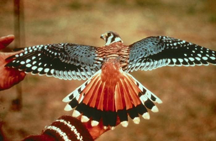 Back of a male American Kestrel (Falco sparverius ).